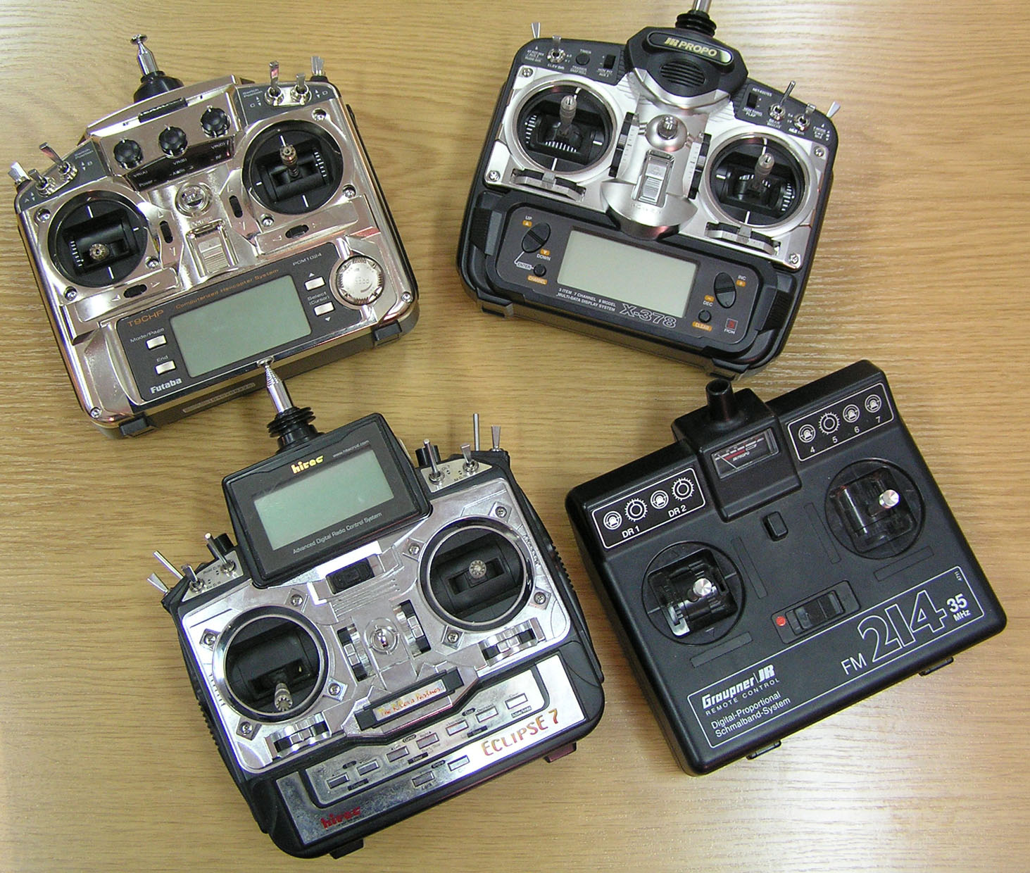 RC transmiter